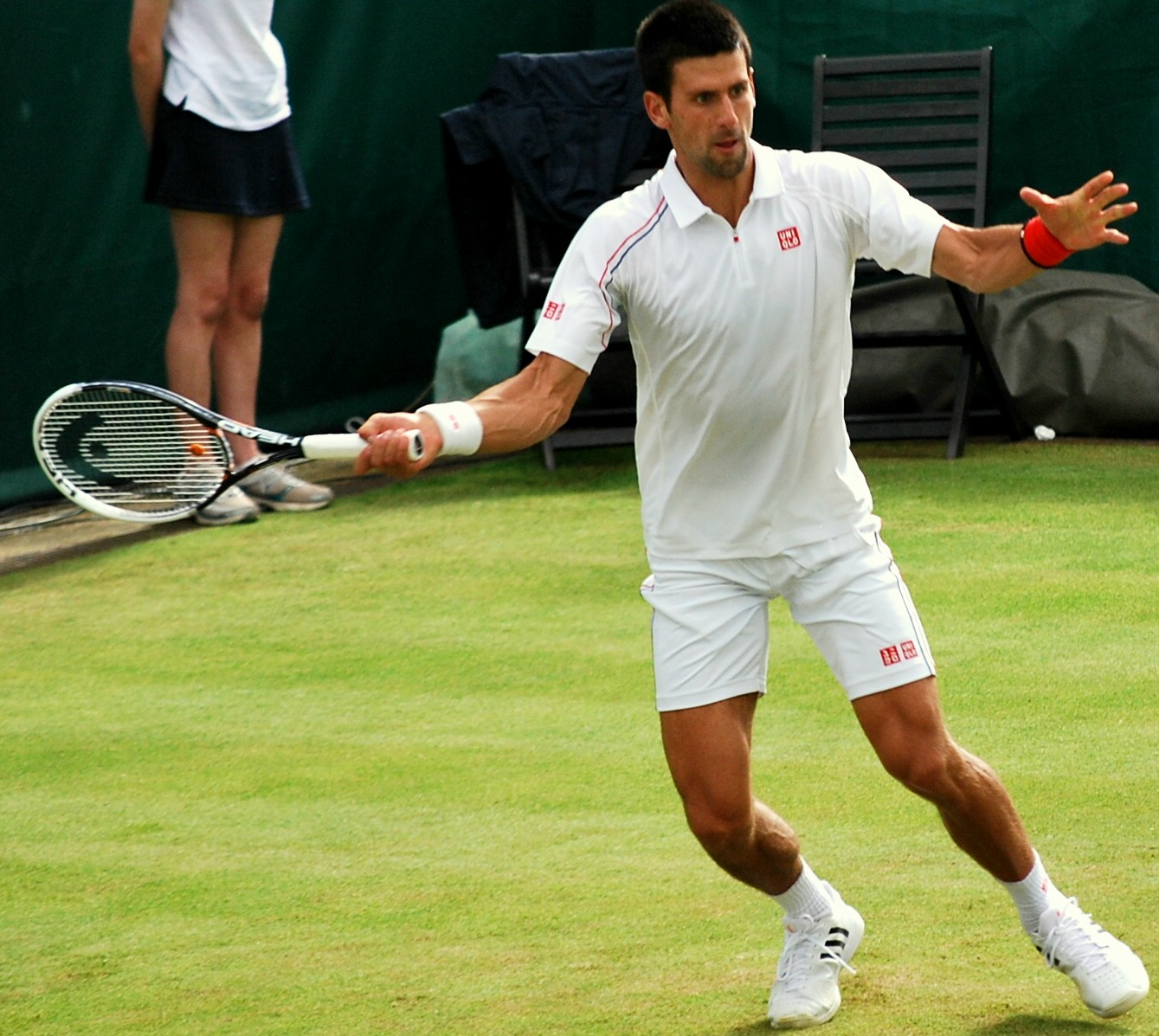 The Boodles, Stoke Park 2012.